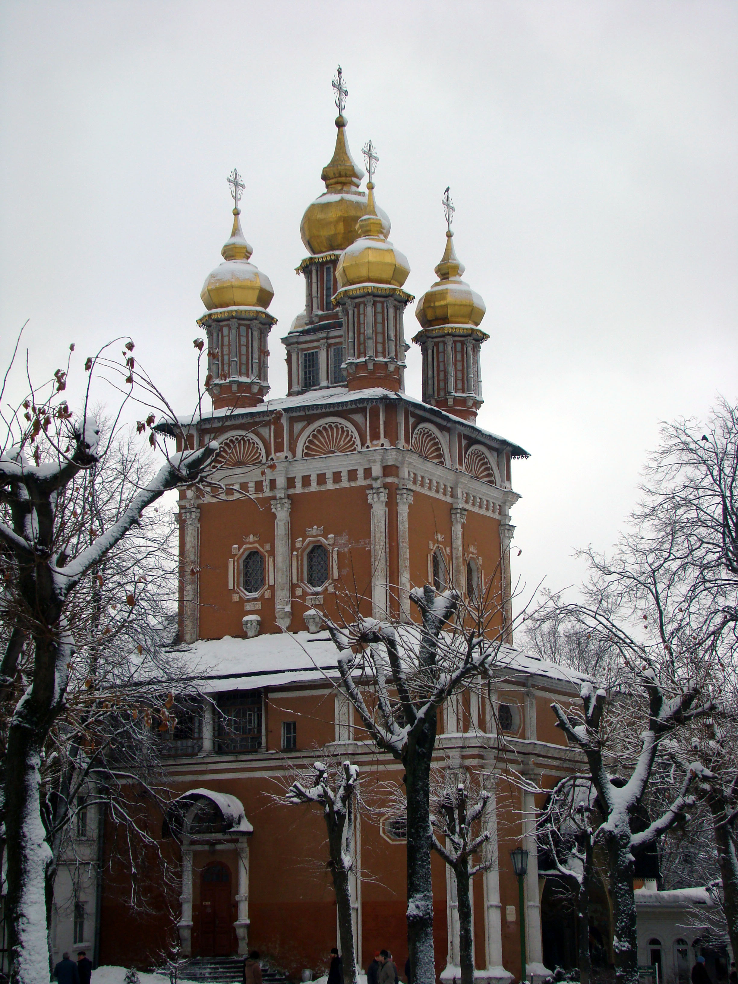 The gate's church of John The Baptist. Sergiev posad, Russia